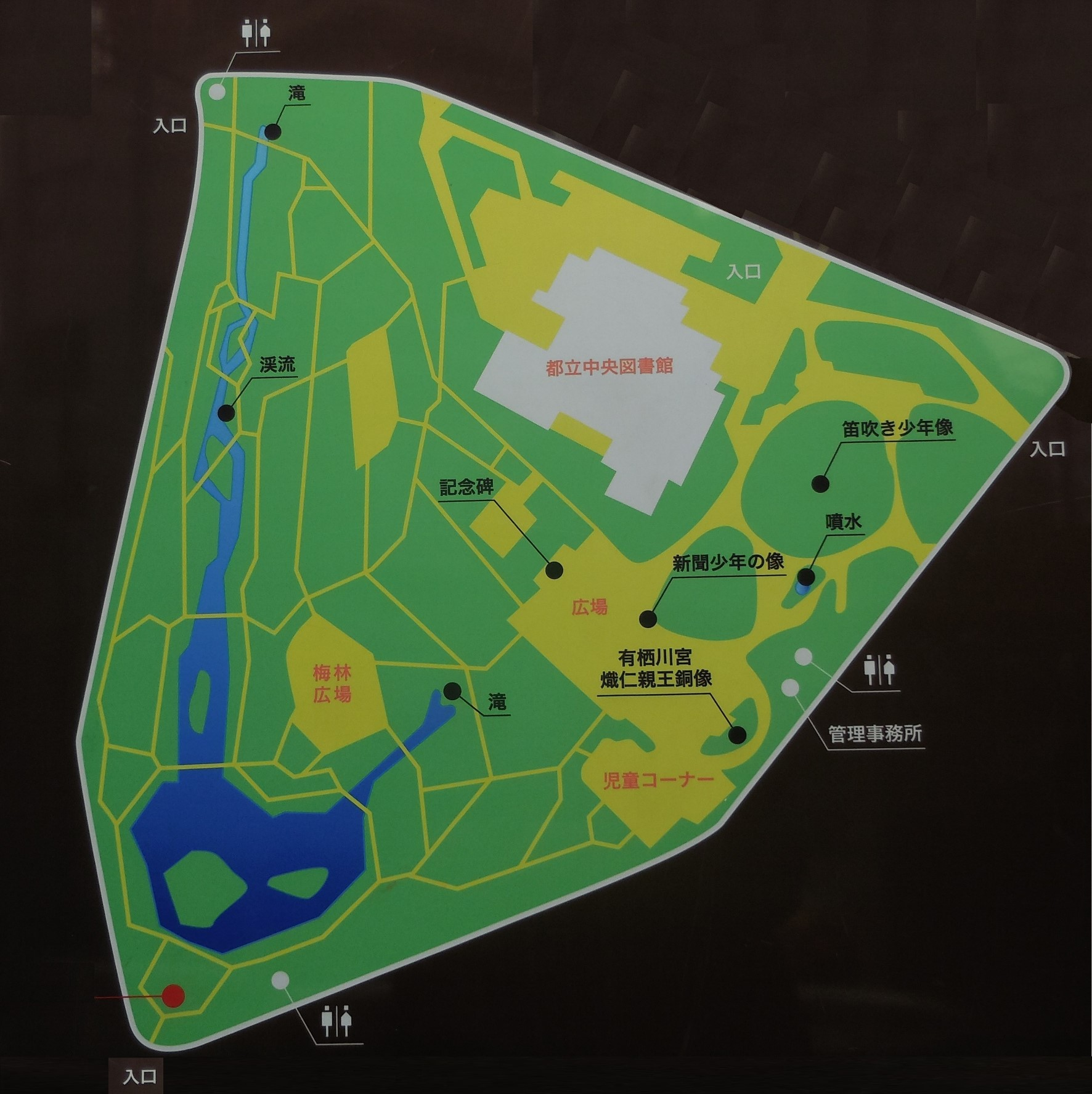 explanation board at Arisugawa Park, Tokyo